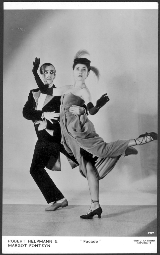 Anthony, Gordon, 1902-1989 "Legendary partnering in ballet - Helpmann was Fonteyn's first partner. Beginning in 1933, the pair danced together for the last time at the Covent Garden celebration for Fonteyn's 65th birthday - more than 40 years later." -- Vendor's note. "Facade was danced by Helpmann and Fonteyn many, many times. It was the selection of Fonteyn when they danced for the last time at the Covent Garden celebration of Fonteyn's 65th birthday." -- Vendor's note. 1 postcard : b&?w ; 14.1 x 8.5 cm. Persistent URL .au/nla.pic-an23234602